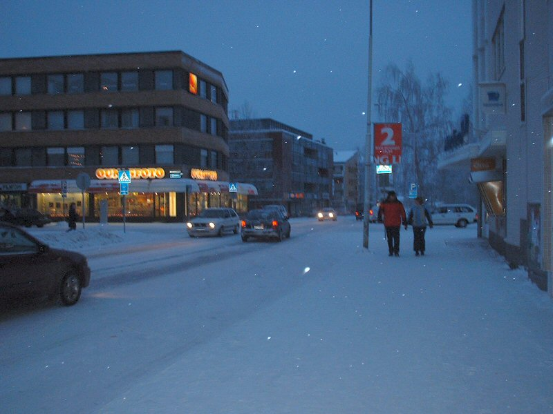 City scenery of Rovaniemi, January 2004.